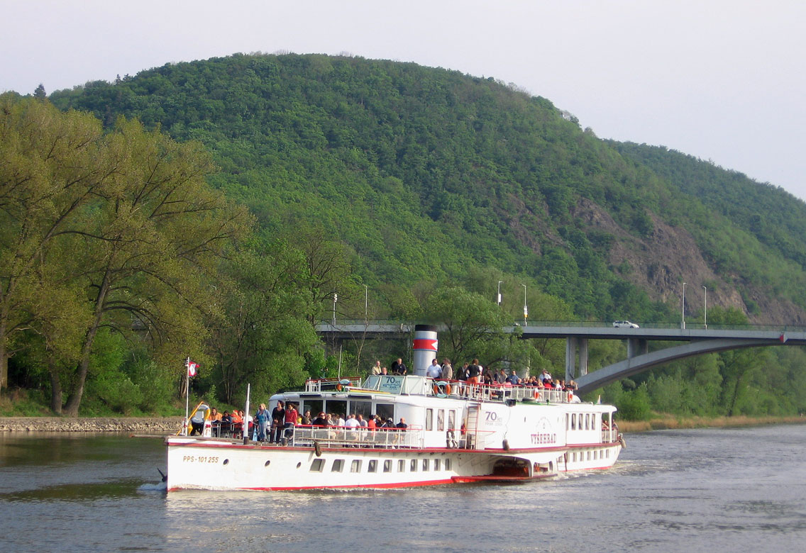 Steamer Vyšehrad (originally Antonín Švehla) in Praha Zbraslav